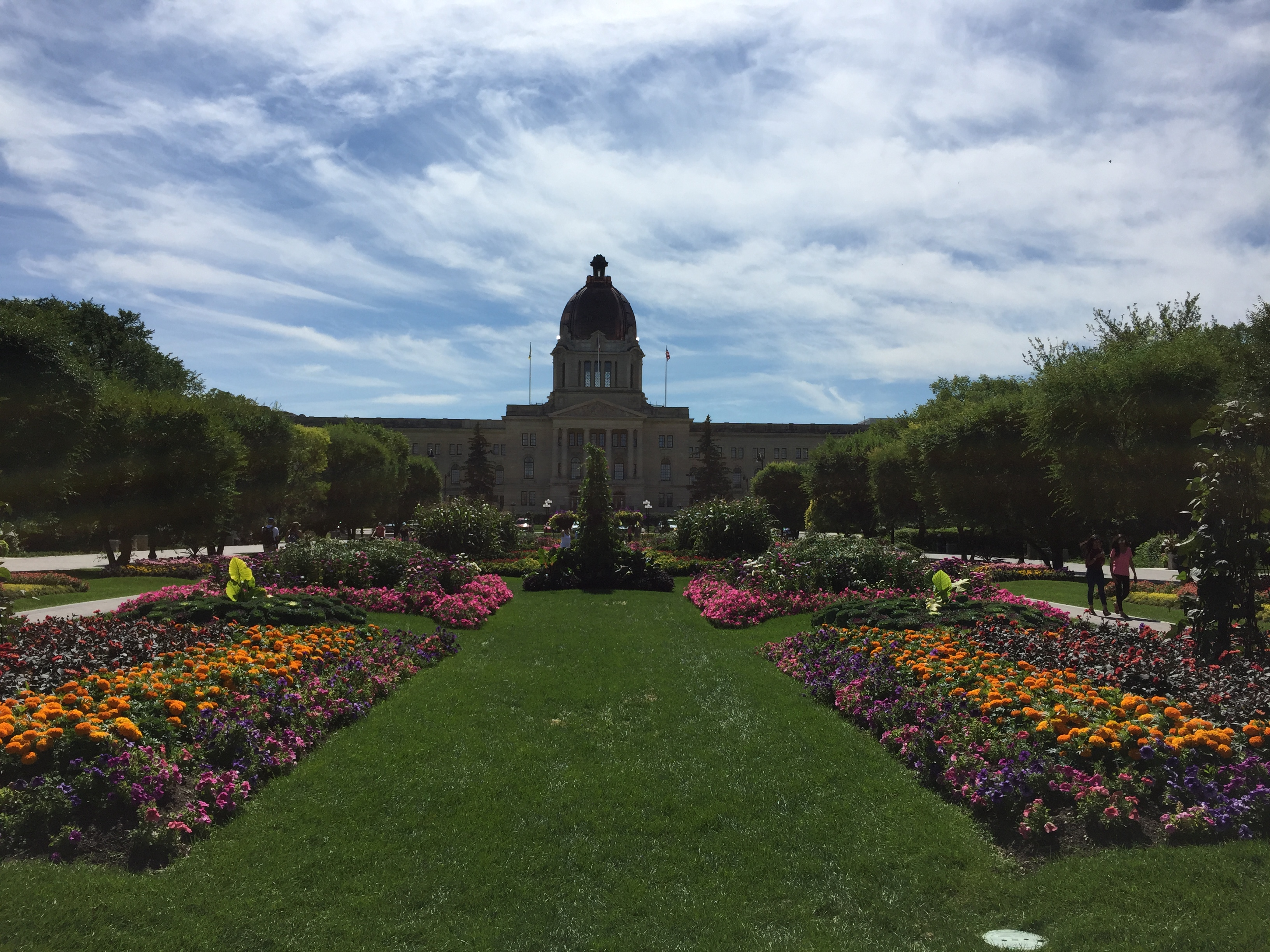 Queen Elizabeth II Gardens, Regina, Saskatchewan